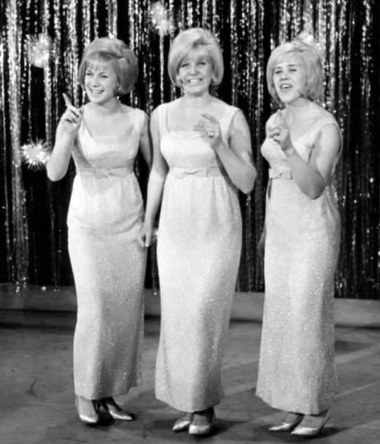 Publicity photo of the Kaye Sisters from the television program The Ed Sullivan Show.